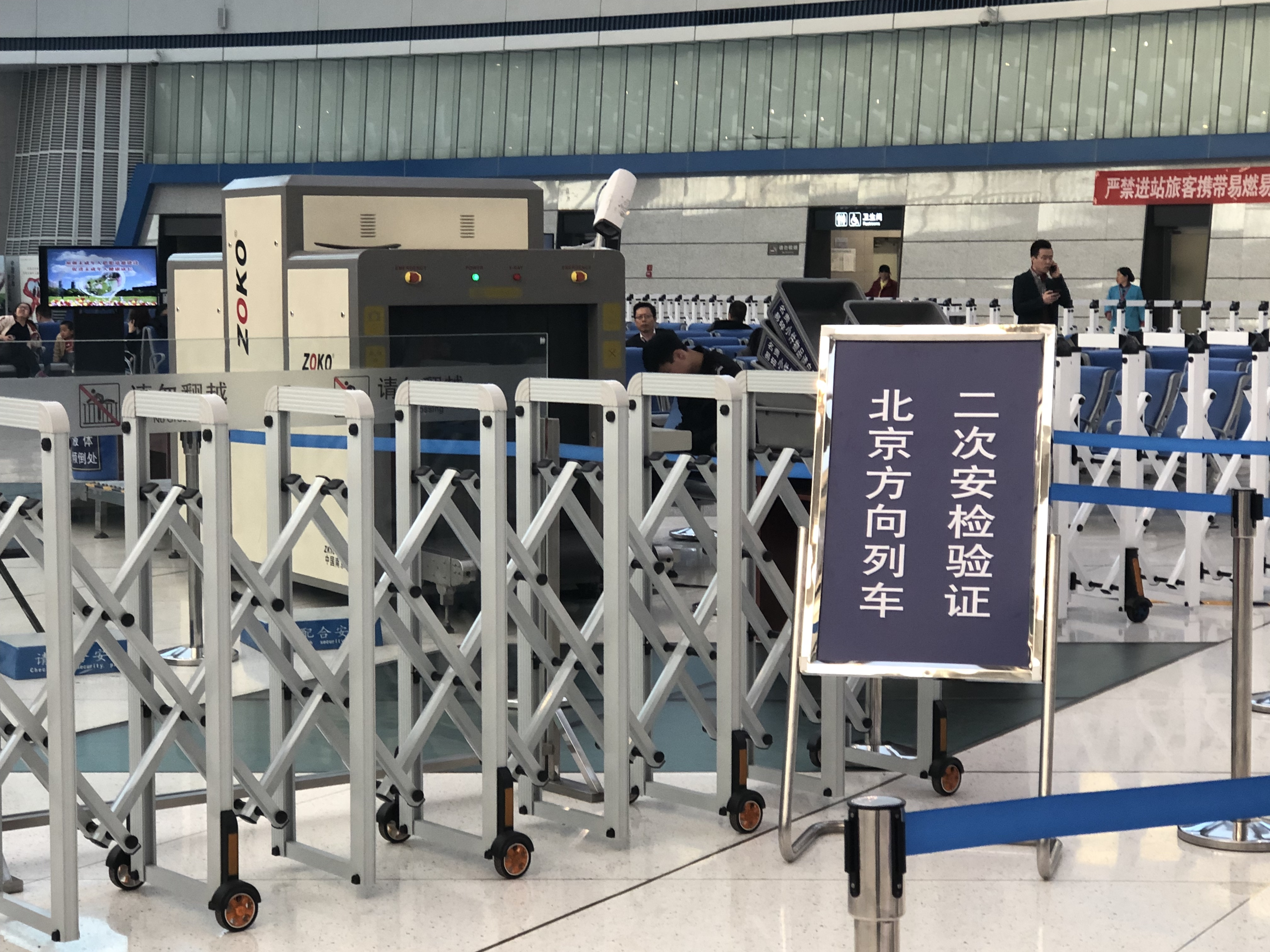 A Secondary security check point in Binhai railway station Tianjin,2019.